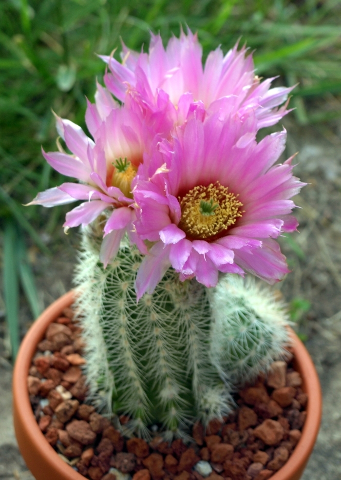 Photo of Echinocereus reichenbachii ssp. baleyi in flower from